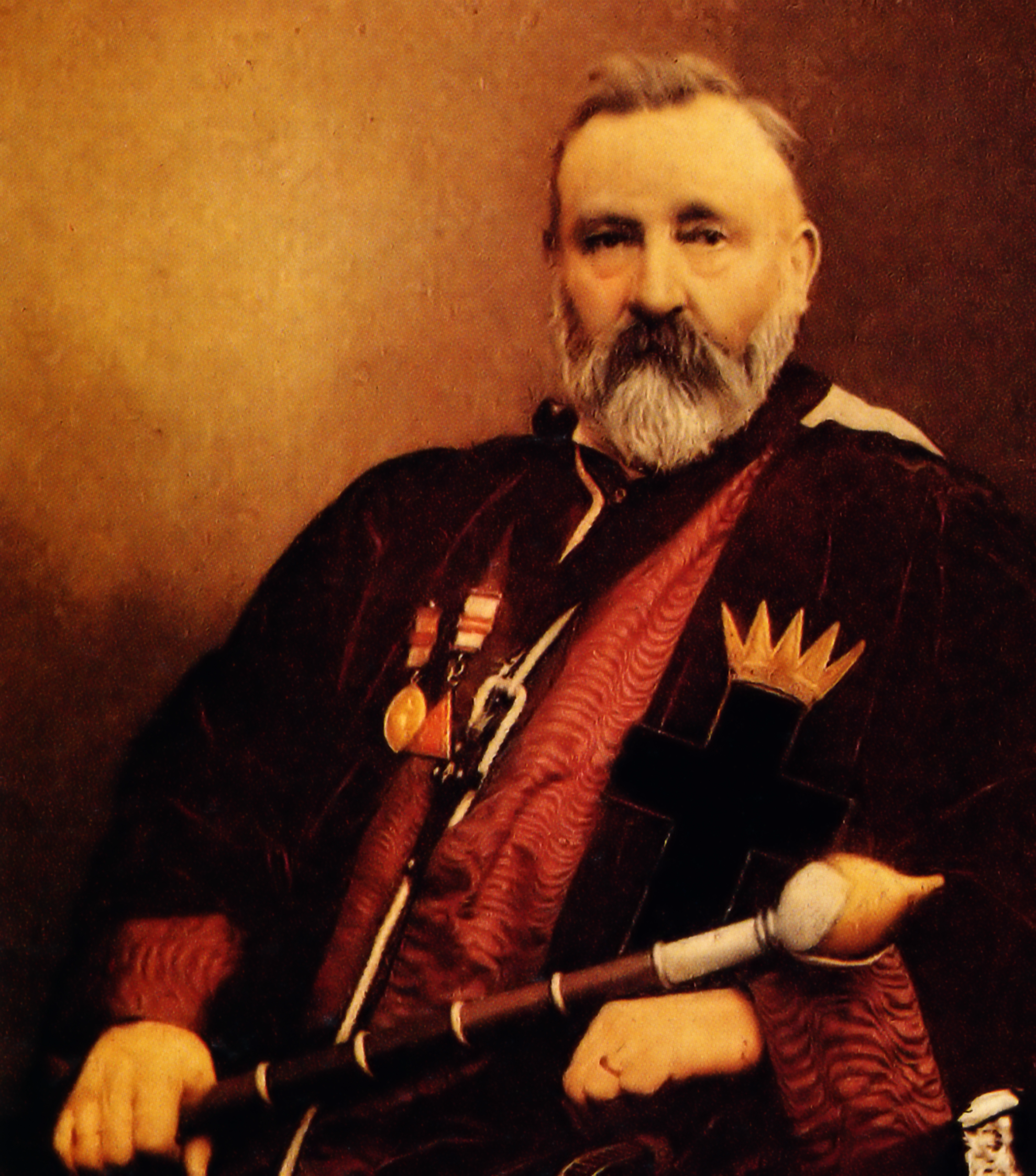 William Wynn Westcott depicted in the ceremonial garment of the Rosicrucians